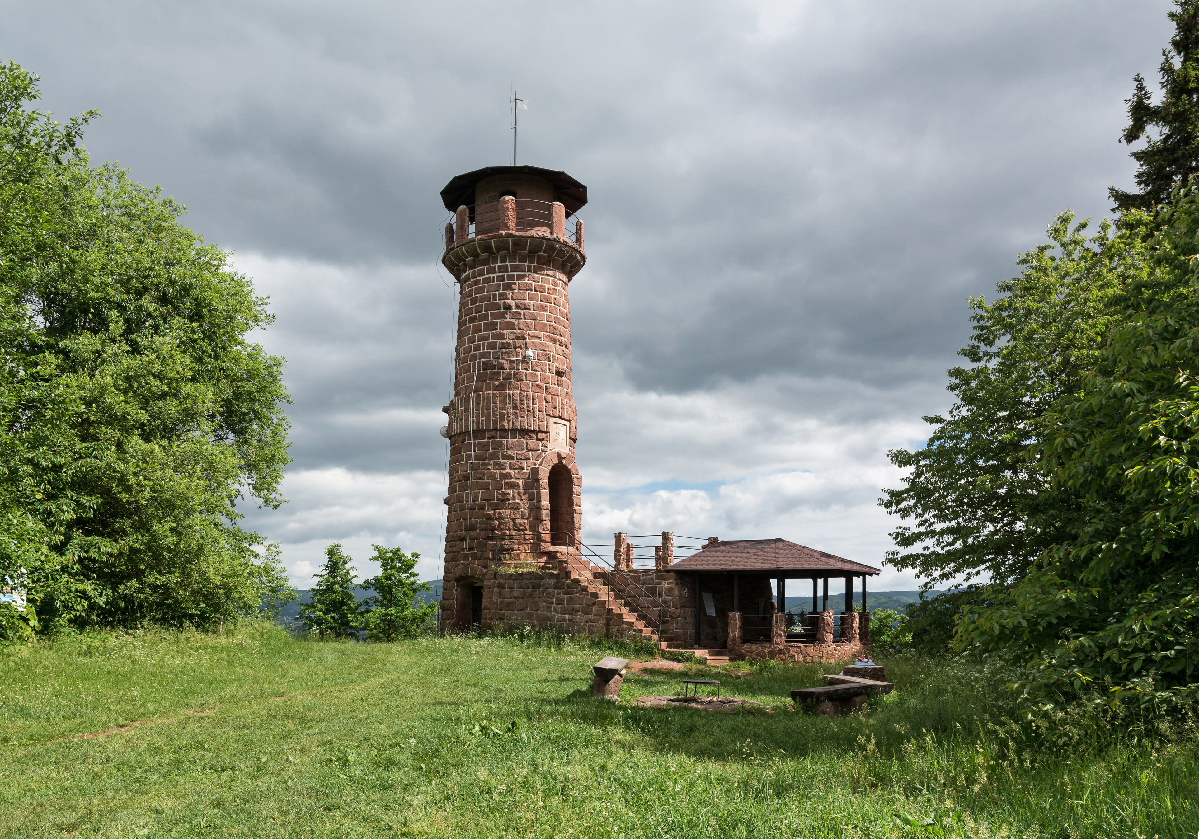 Observation tower on Góra Wszystkich Świętych